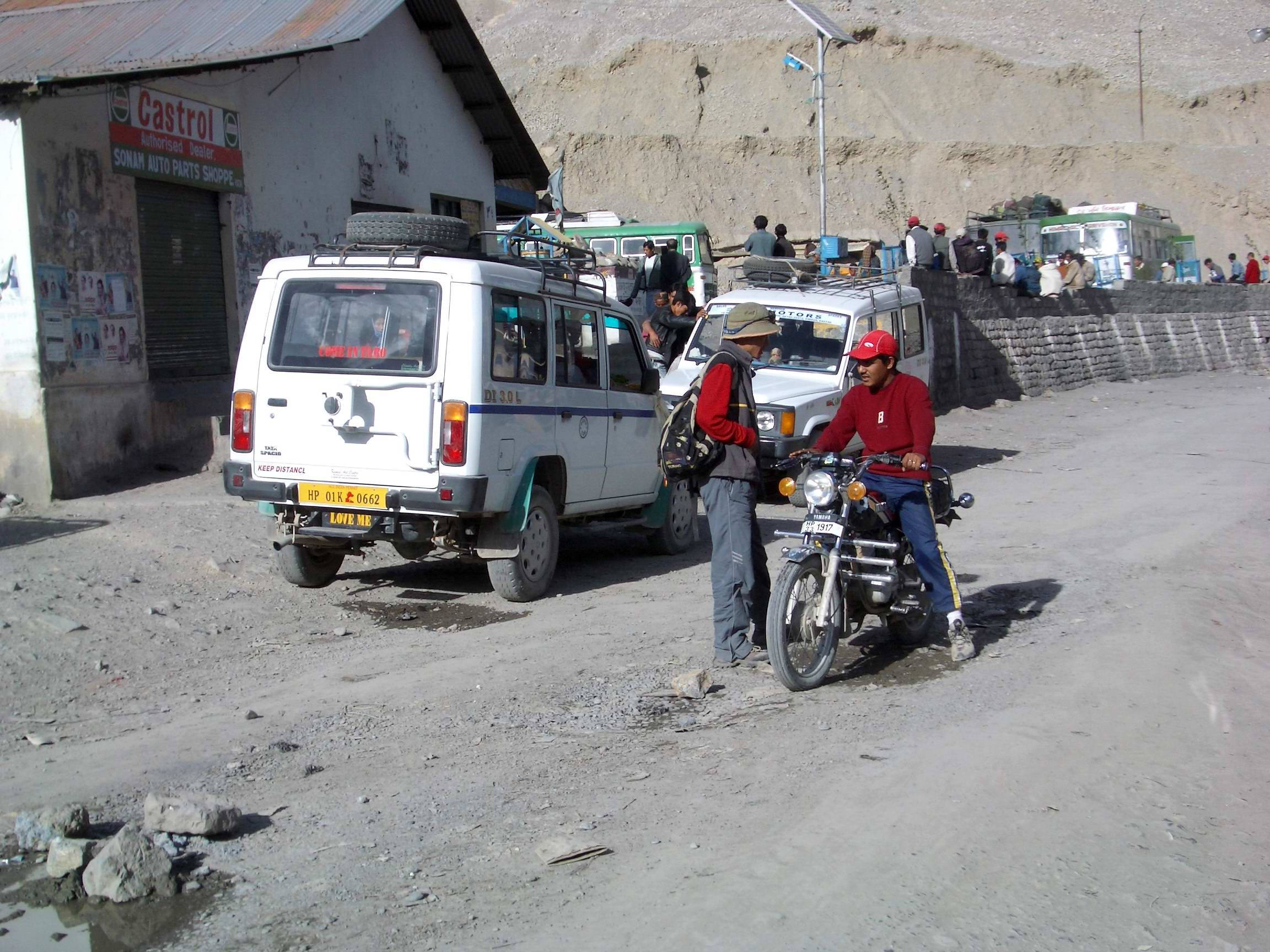 This photo was taken by me in Kaza in 2004